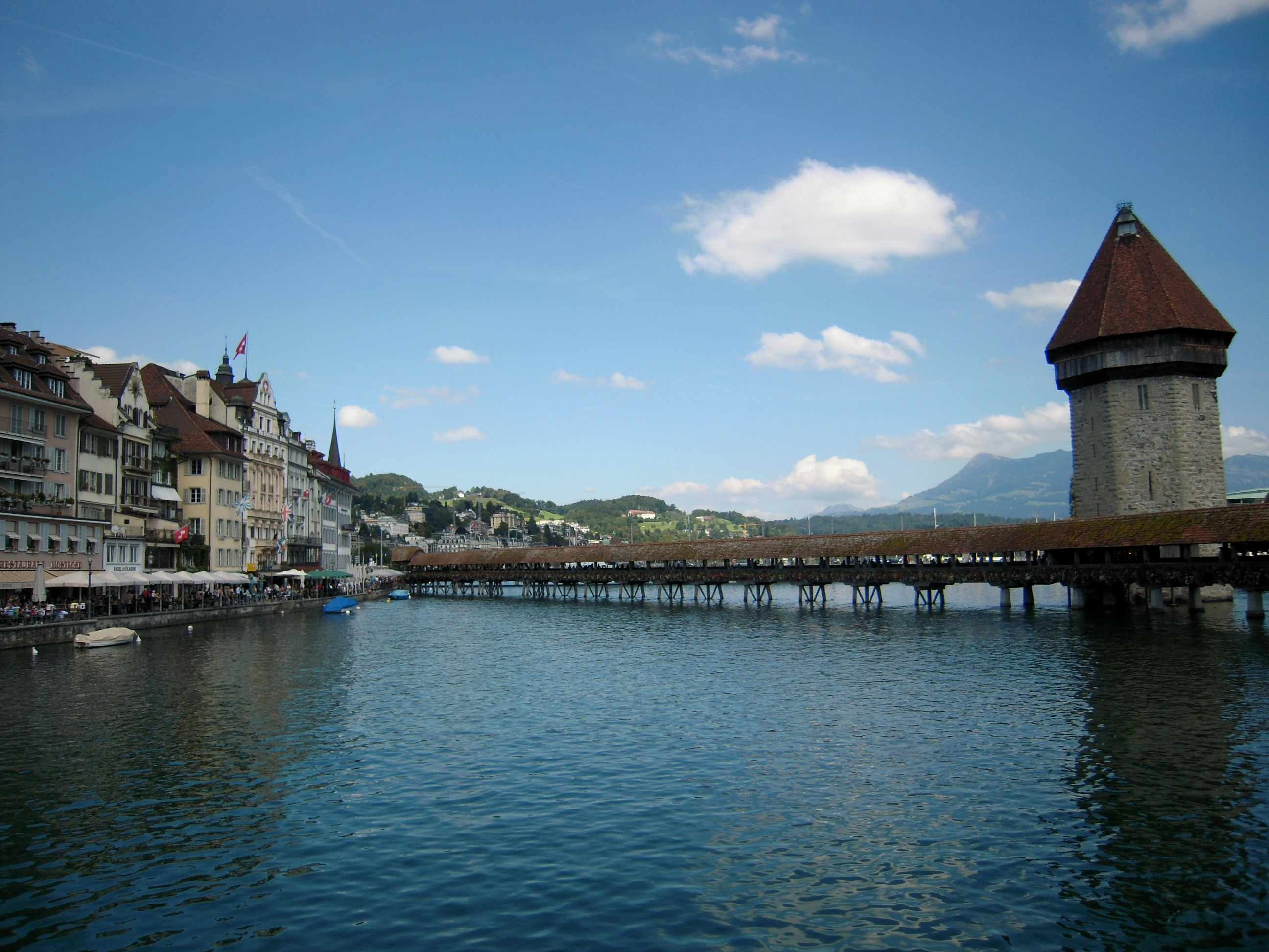 Kapellbrücke in Lucerne